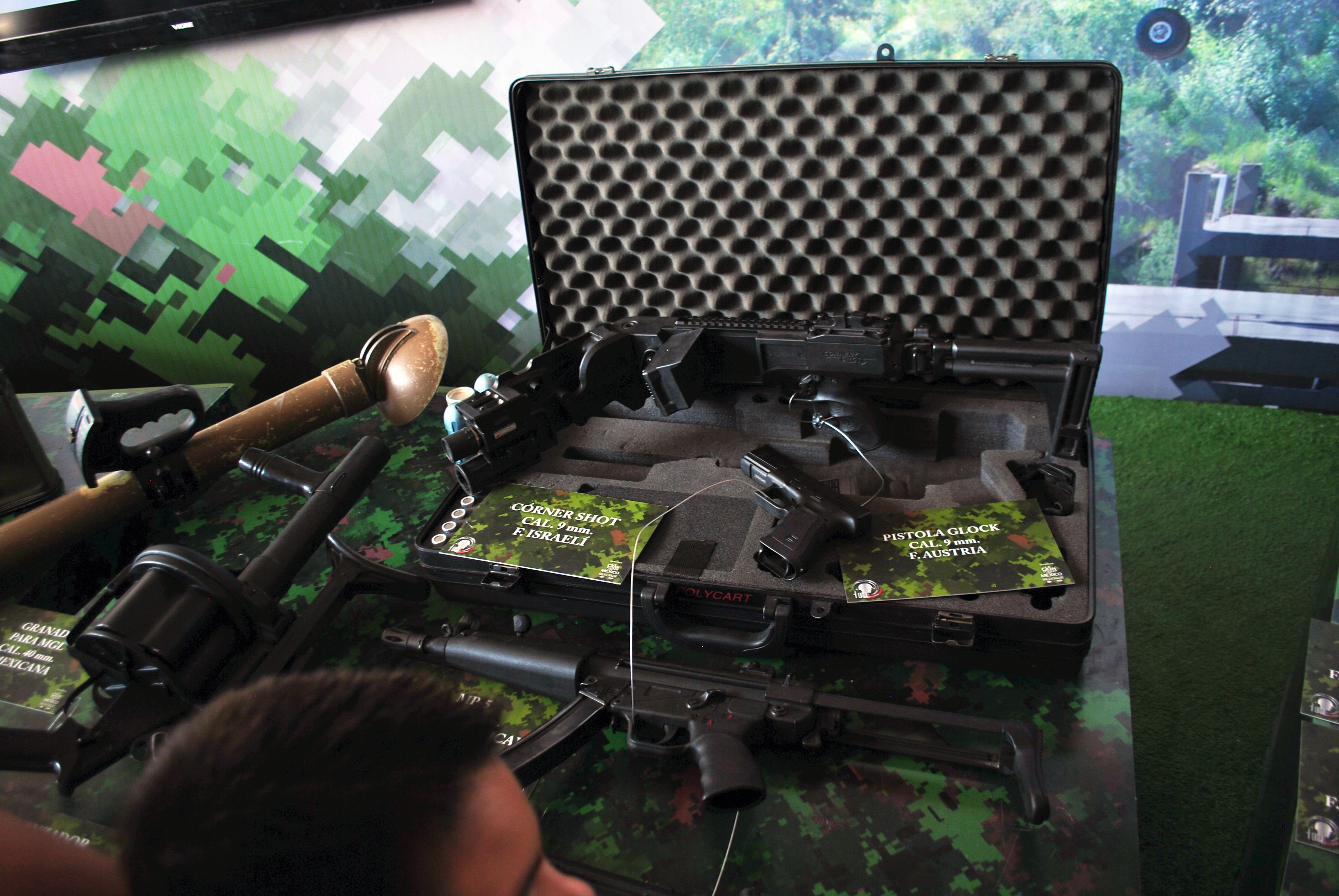 Exhibition "Armed Forces ... passion for service to Mexico," Zócalo of Mexico City.